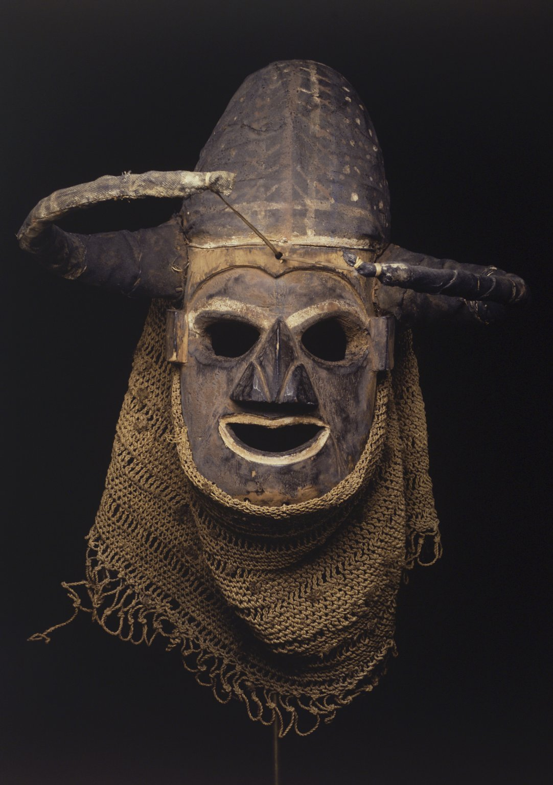 Anthropomorphic Mask